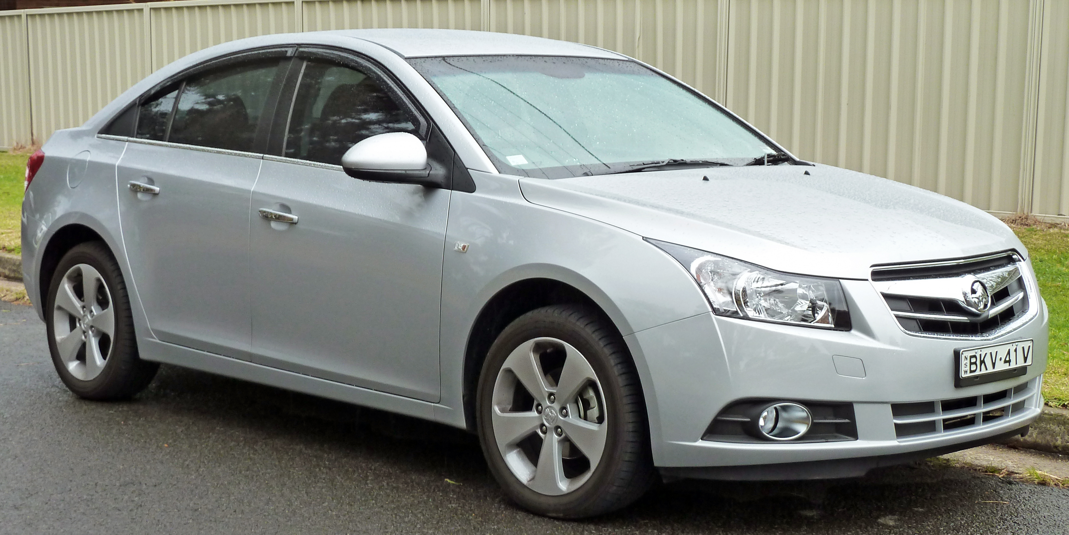 2009 Holden Cruze (JG) CDX sedan. Photographed in Miranda, New South Wales, Australia.